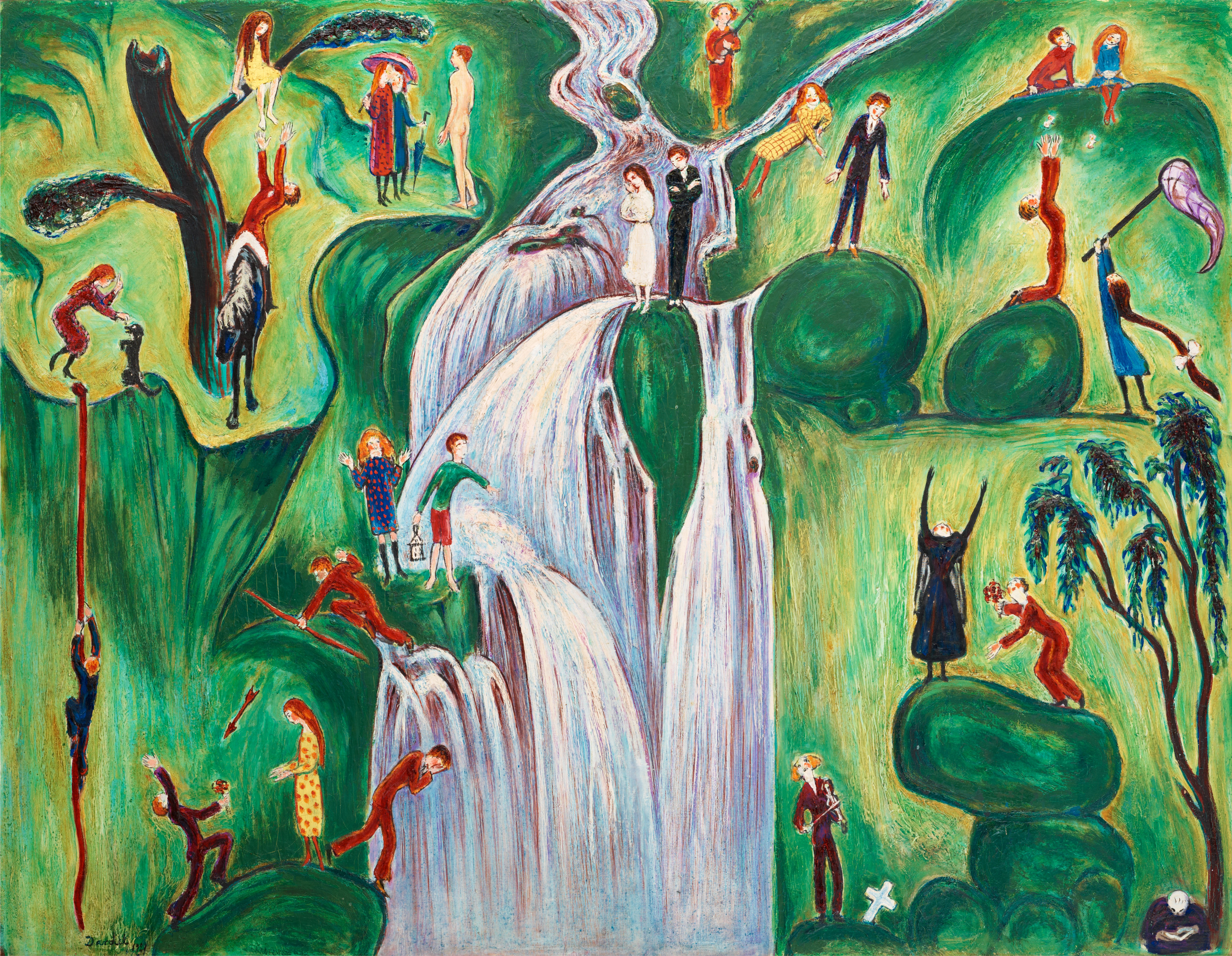 NILS VON DARDEL, "Vattenfallet". Signerad Dardel och daterad 1921. Duk uppfäst på pannå 113 x 145 cm.